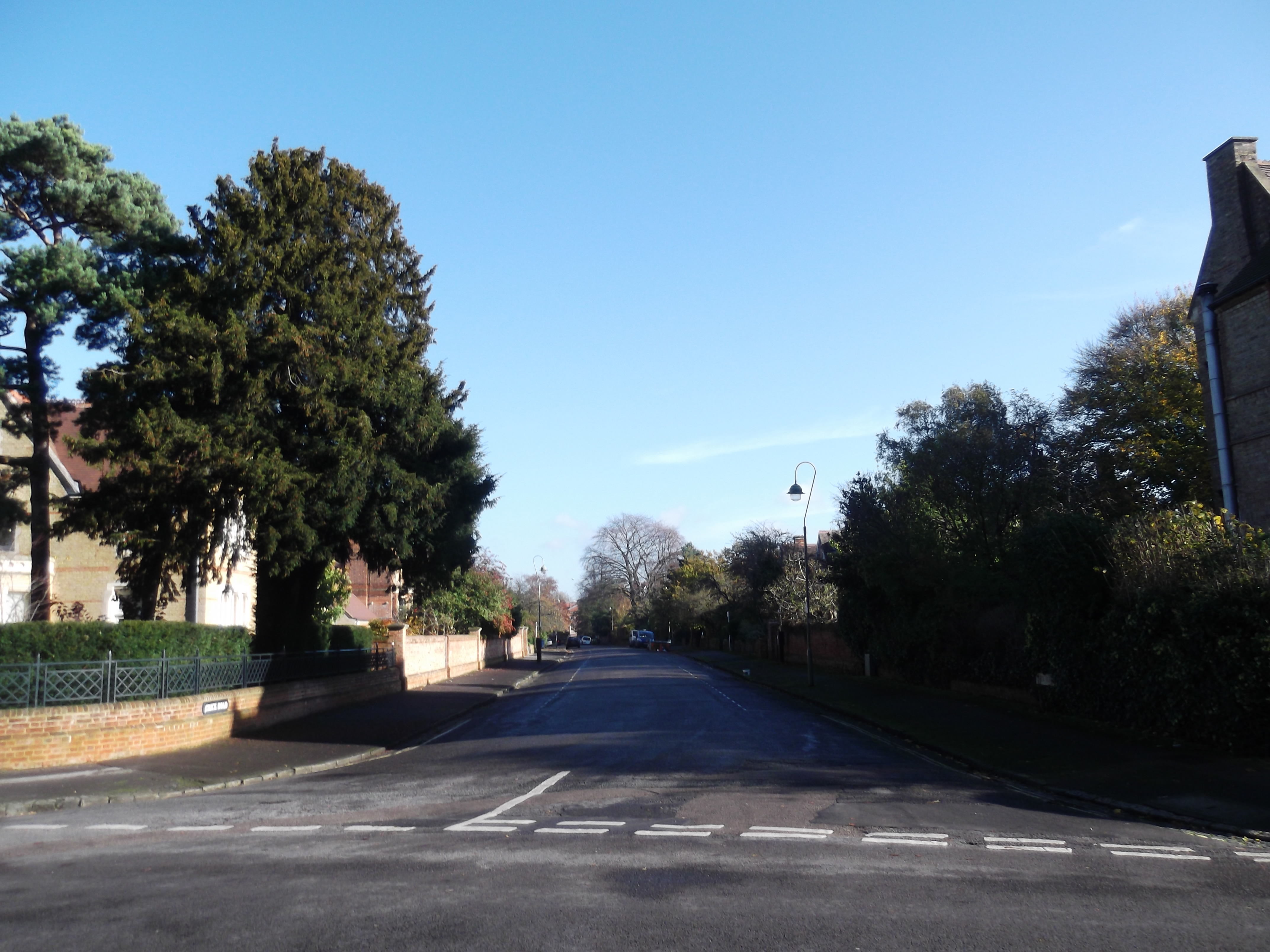 Street in north Oxford, England.